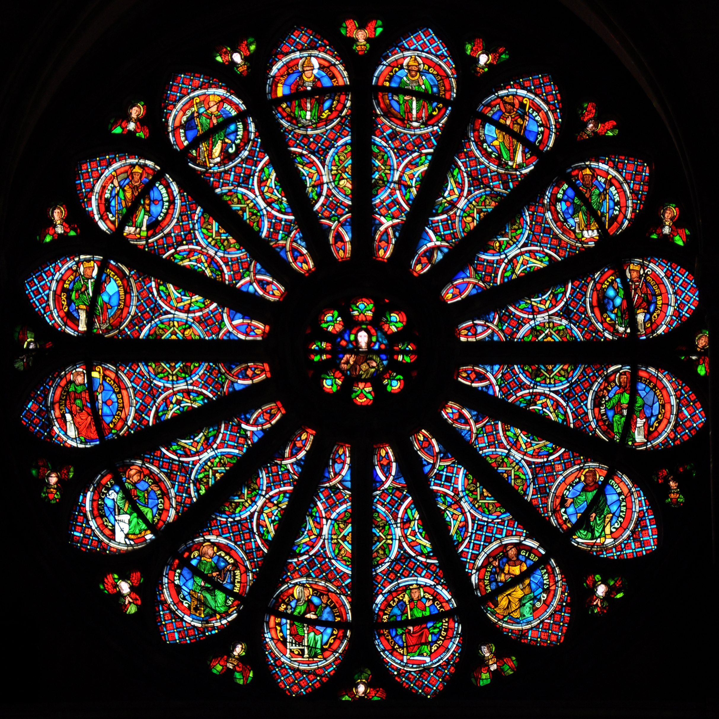 Western rose window of the Basilique Saint-Remi, Reims, France. This is a gothic revival stained glass window.